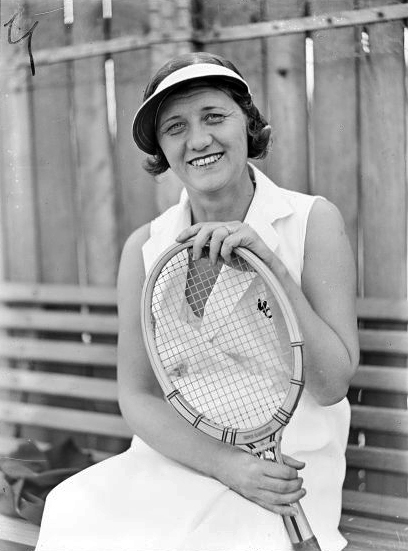 Australian tennis player Marjorie Cox Crawford in New South Wales.